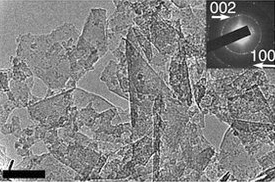 TEM image of few-layer BN, with the selected-area electron diffraction pattern (inset) indicating a layered BN structure. Scale bar, 50 nm.